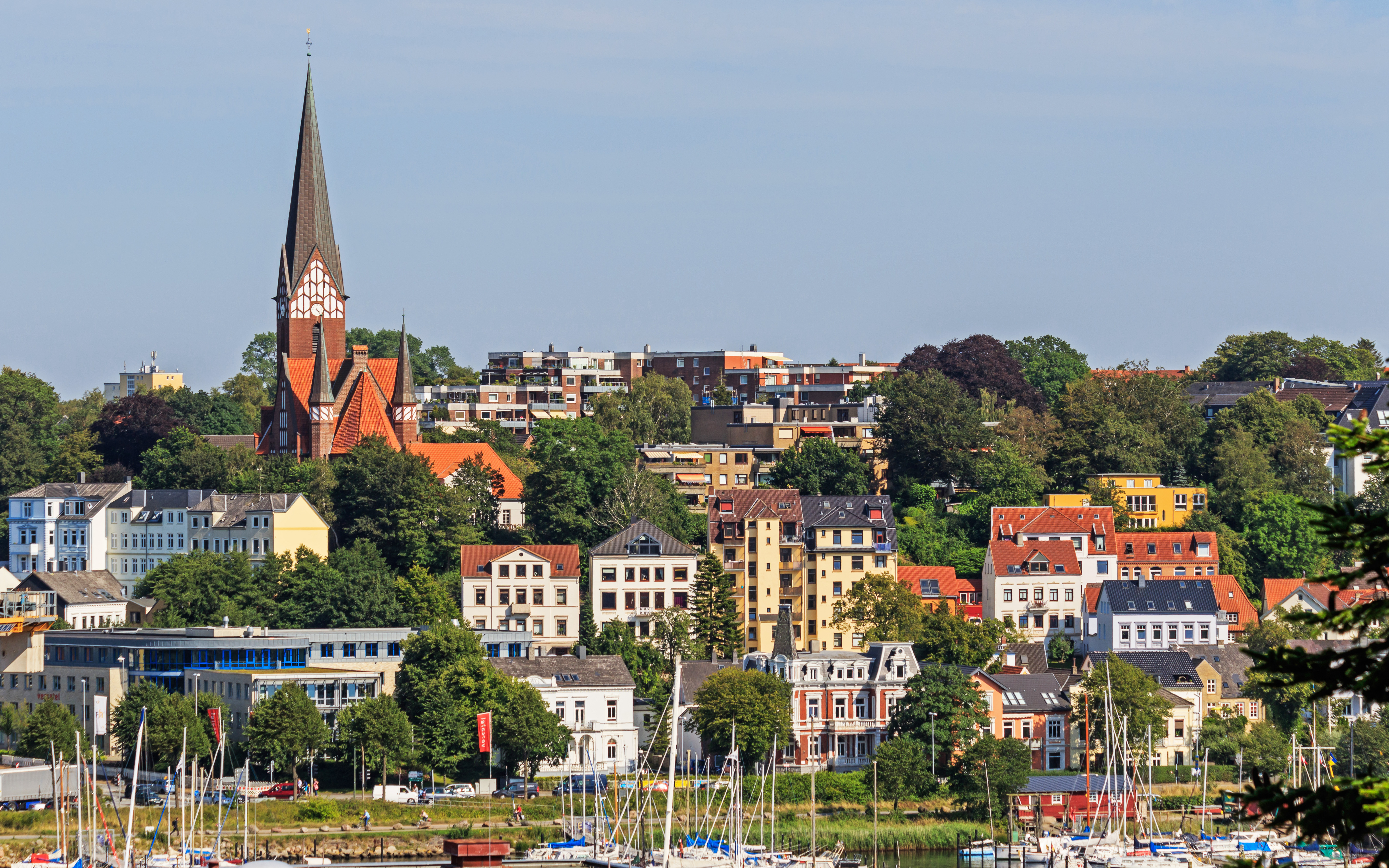 View from Rummelgang in Flensburg, Germany